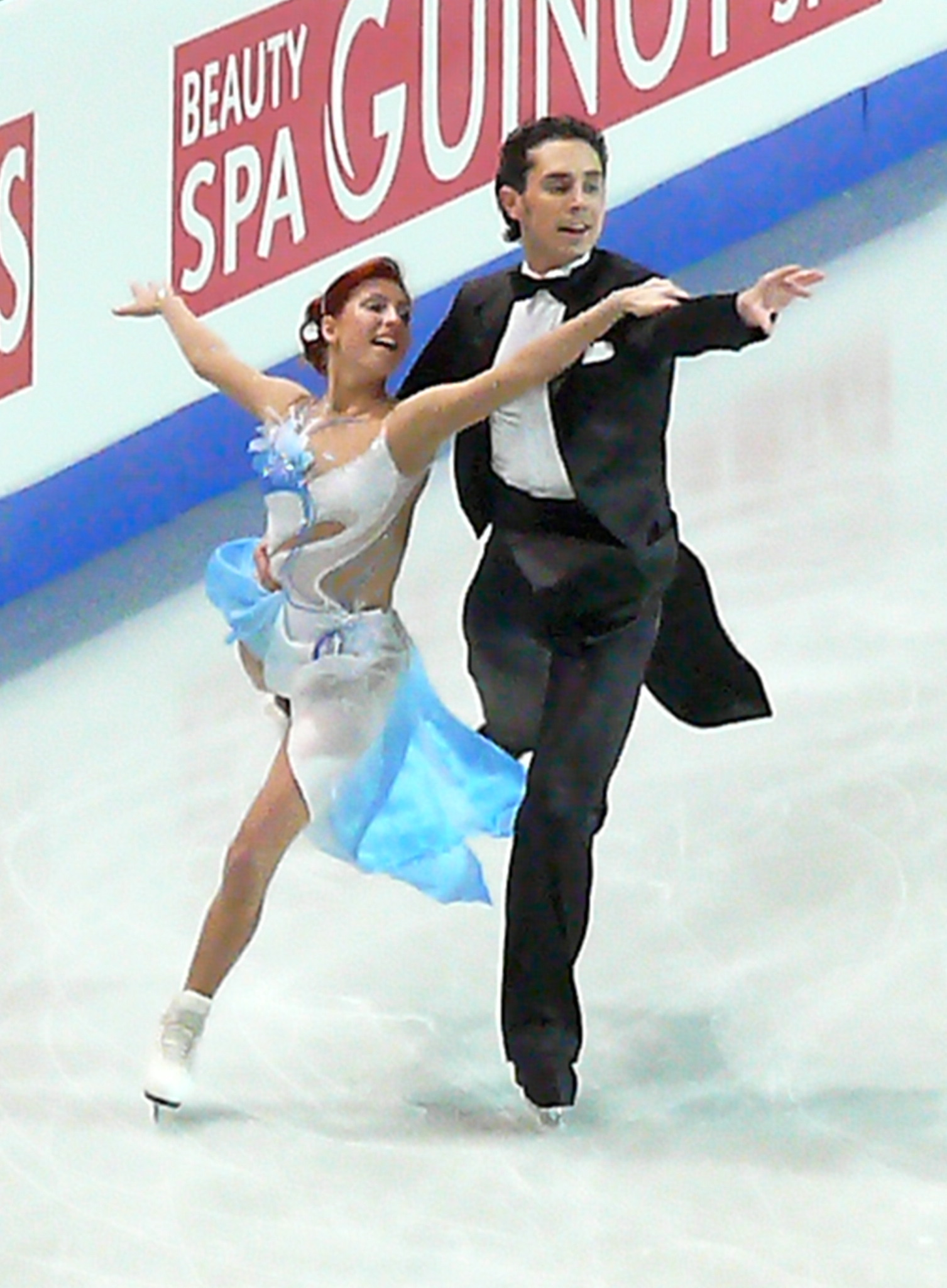 Jana Khokhlova and Sergei Novitski (RUS) at the compulsory dance at the European Championships 2007 in Warsaw